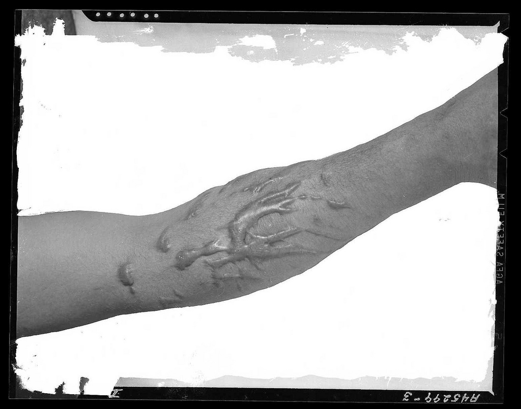 Keloids on arms caused by sulfuric acid. World War 2. 20th General Hospital.